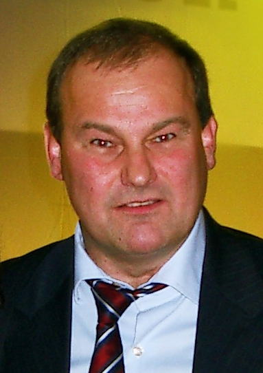 Thomas Mueller, Profiler, Kriminalpsychologe, Austria